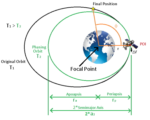 Phasing orbit example